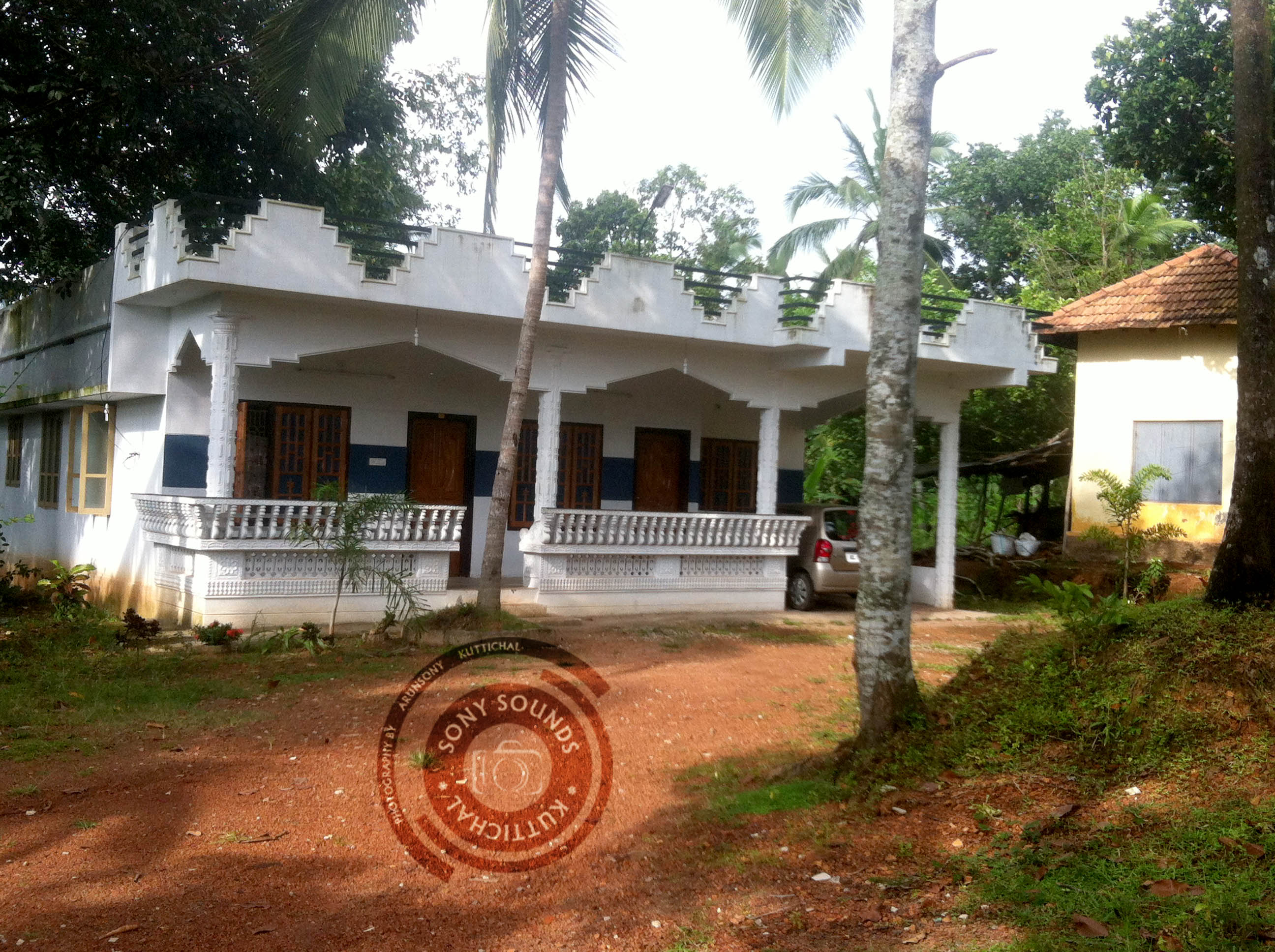 paruthippally csi mission house